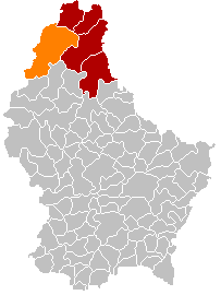 Own edit of Kanton ClervauxLocatie.png